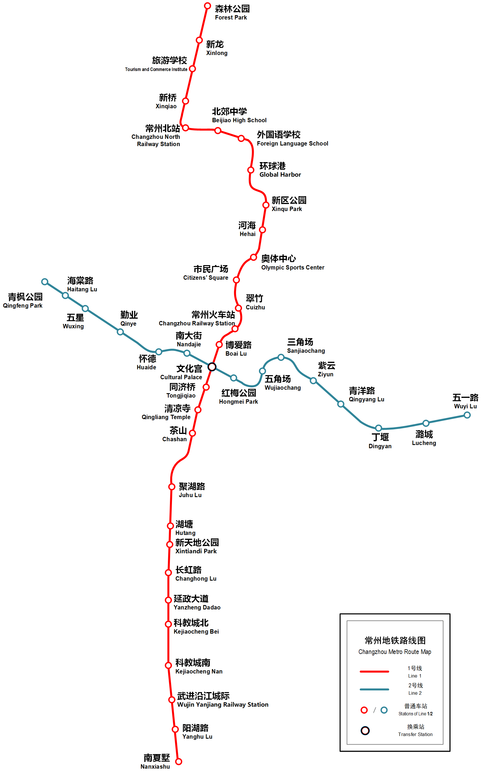 The route map of Changzhou Metro. Line 2 is under construction.